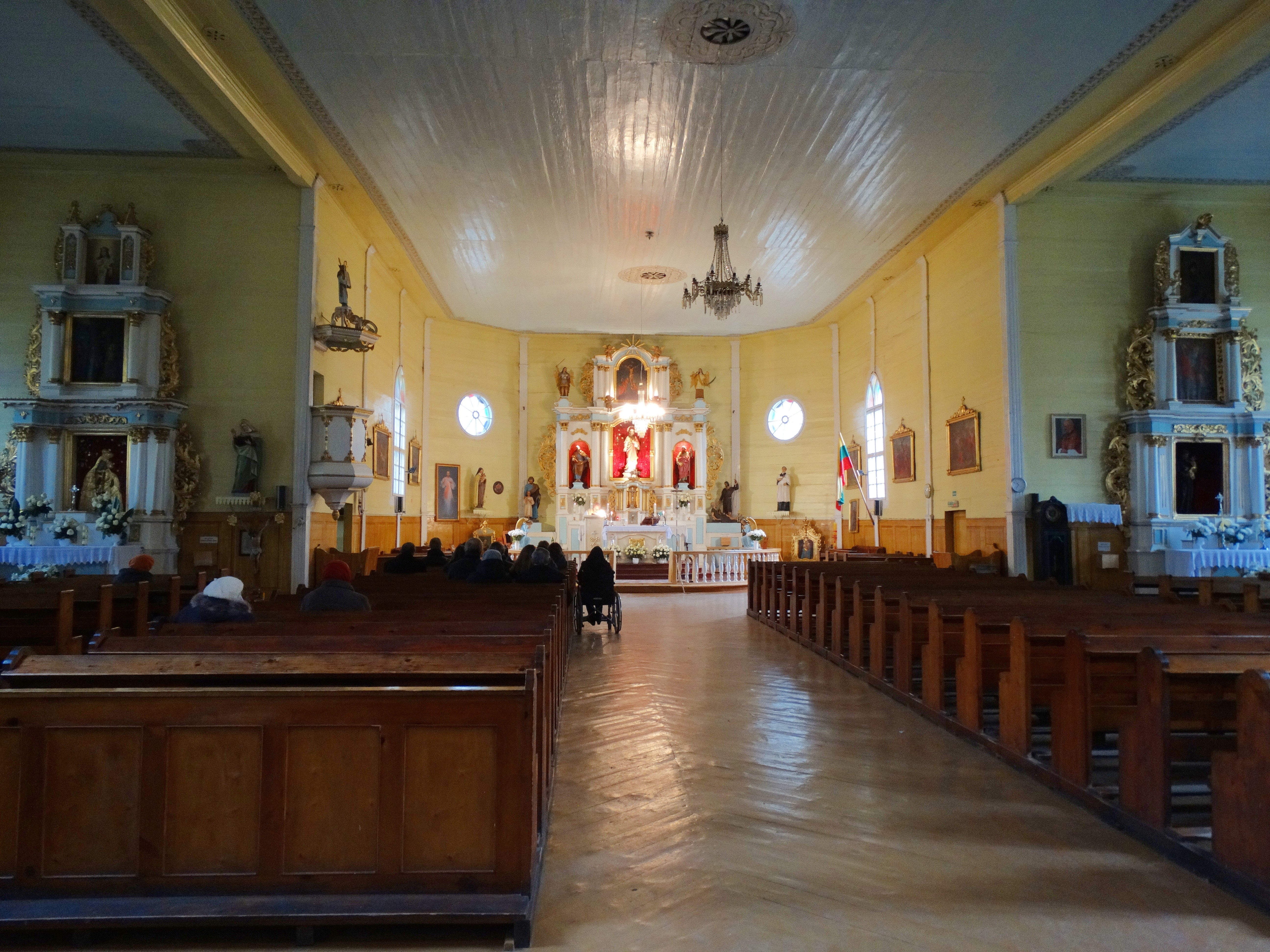 Pušalotas, Church of St. Peter and St. Paul, Pasvalys district, Lithuania